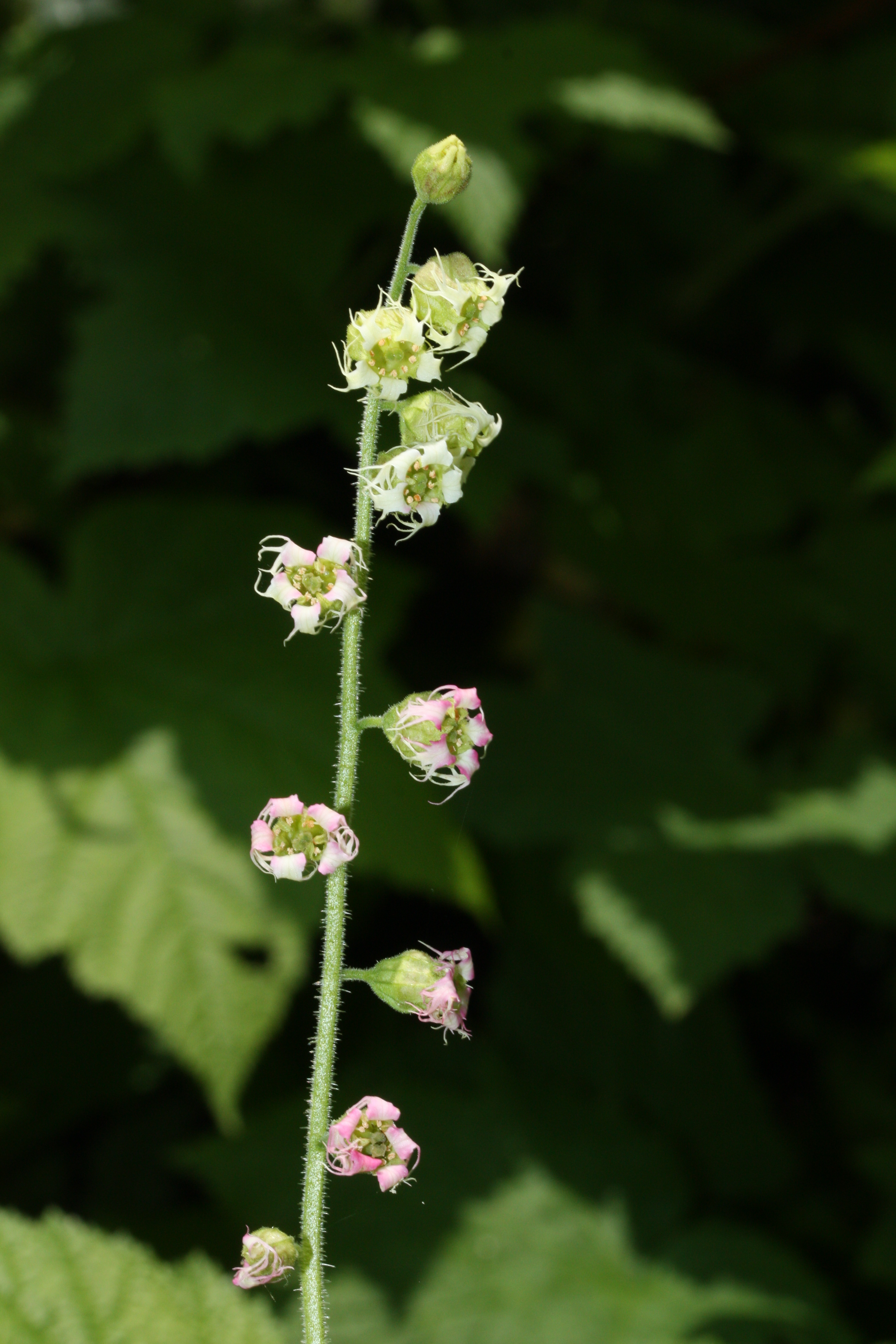 Bigflower Tellima, Fringecup, Fragrant Fringecup